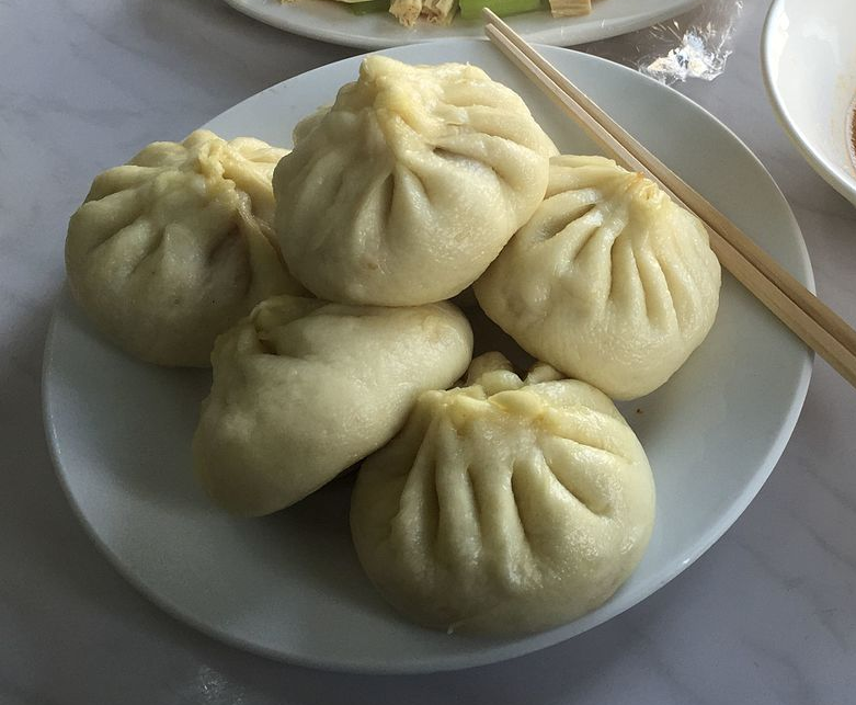 This image shows a plate of five Baozi, as well as a pair of chopsticks.